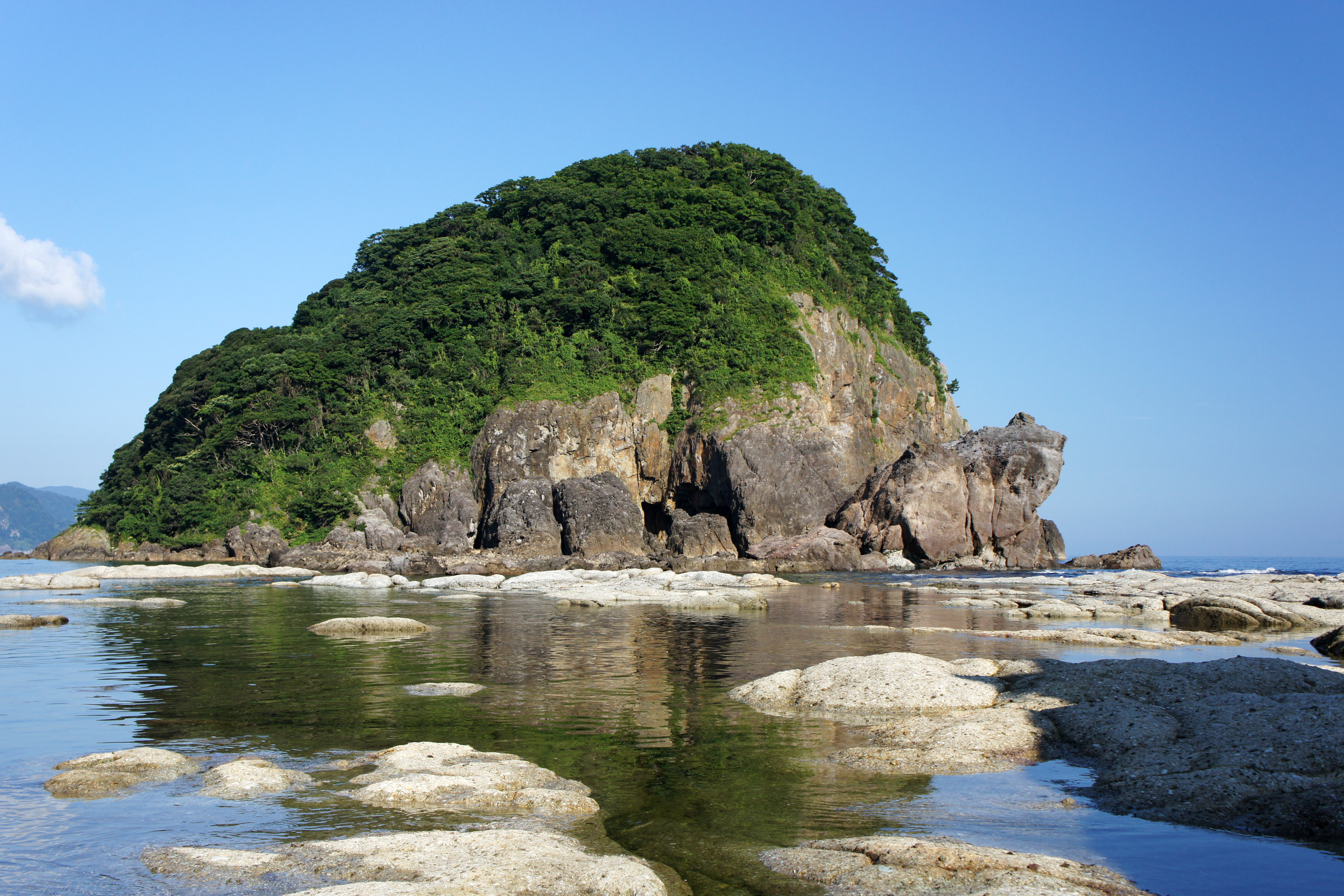 Imagoura of Kasumi Coast in Kami, Hyogo prefecture, Japan. It is a part of "San'in Coast Geopark" which joins in Global Geoparks Network.